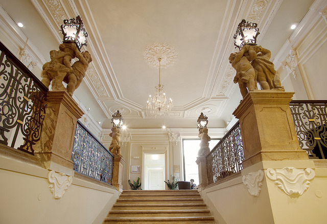 Anglo-American University Campus at Letenska 5, Thurn und Taxis Palace